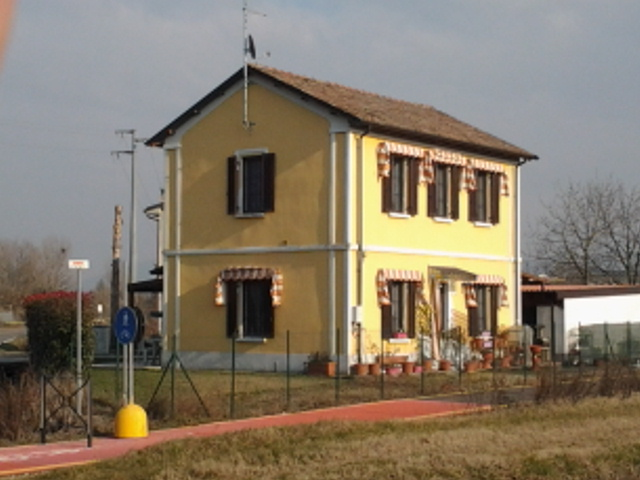 Torrazza Coste railway station